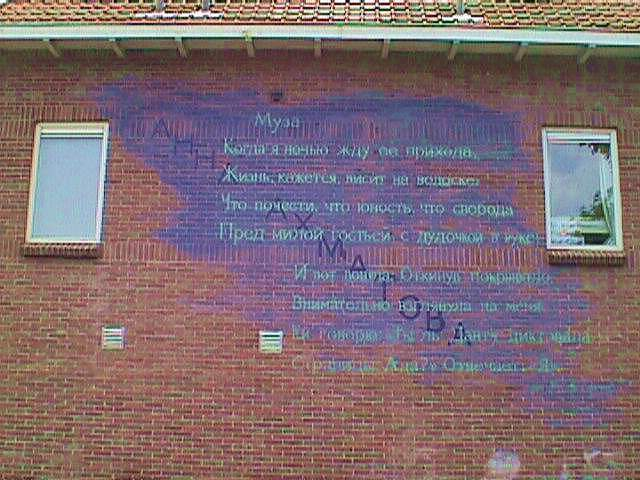 Wallpoem in de city of Leiden in the Netherlands.